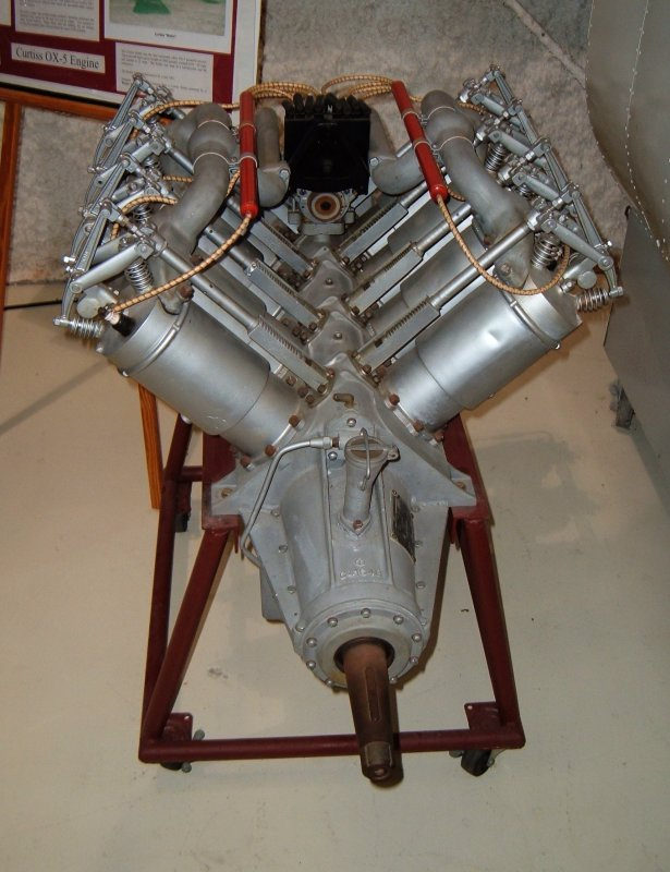 Top front view of Curtiss OX-5 engine on display at Lone Star Flight Museum, Galveston, TX.